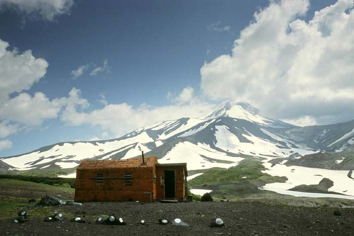 Avachinsky Volcano, Kamchatka, Russia, with base camp in the foreground.